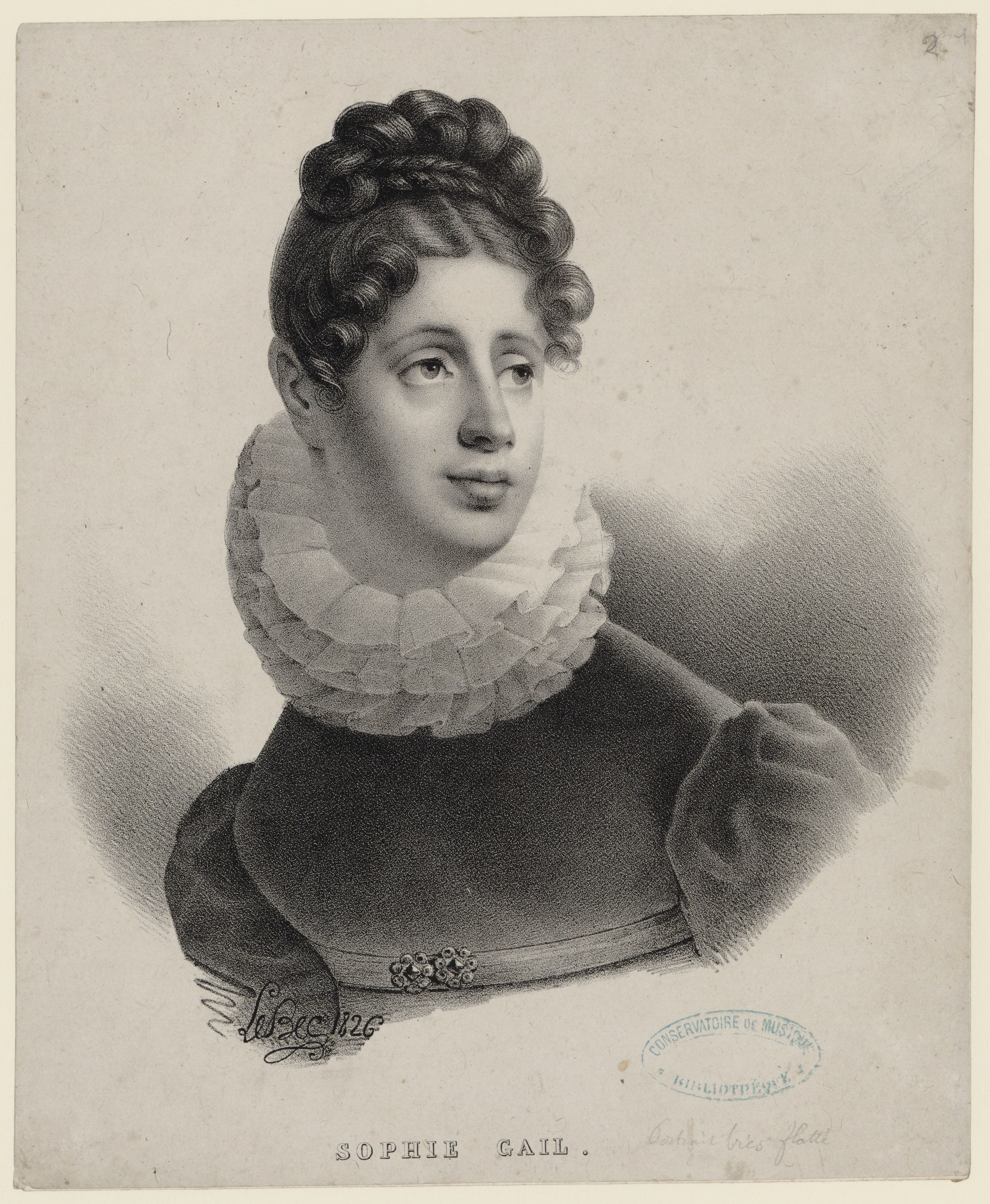 French composer Sophie Gail (1775-1819) after a portrait by Eugène Isabey (1803-1886)